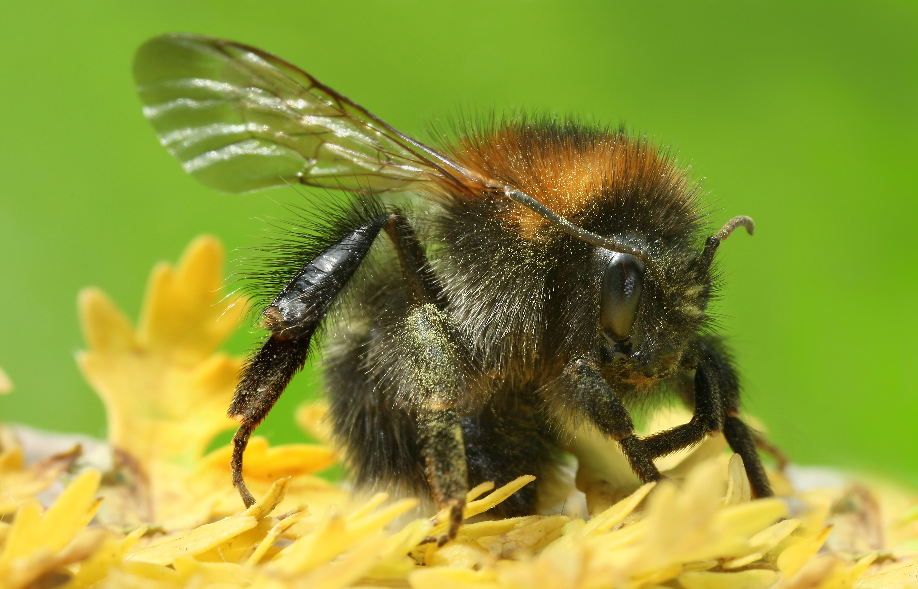 Description: Bumblebees (also spelled bumble bee, also known as humblebee) are flying insects of the genus Bombus in the family Apidae. Like their relatives the honey bees, bumblebees feed on nectar and gather pollen to feed their young. These creatures are beneficial to humans and the plant world alike, and tend to be larger and more visibly furry than other types of bee. As shown a Bombus pascuorum